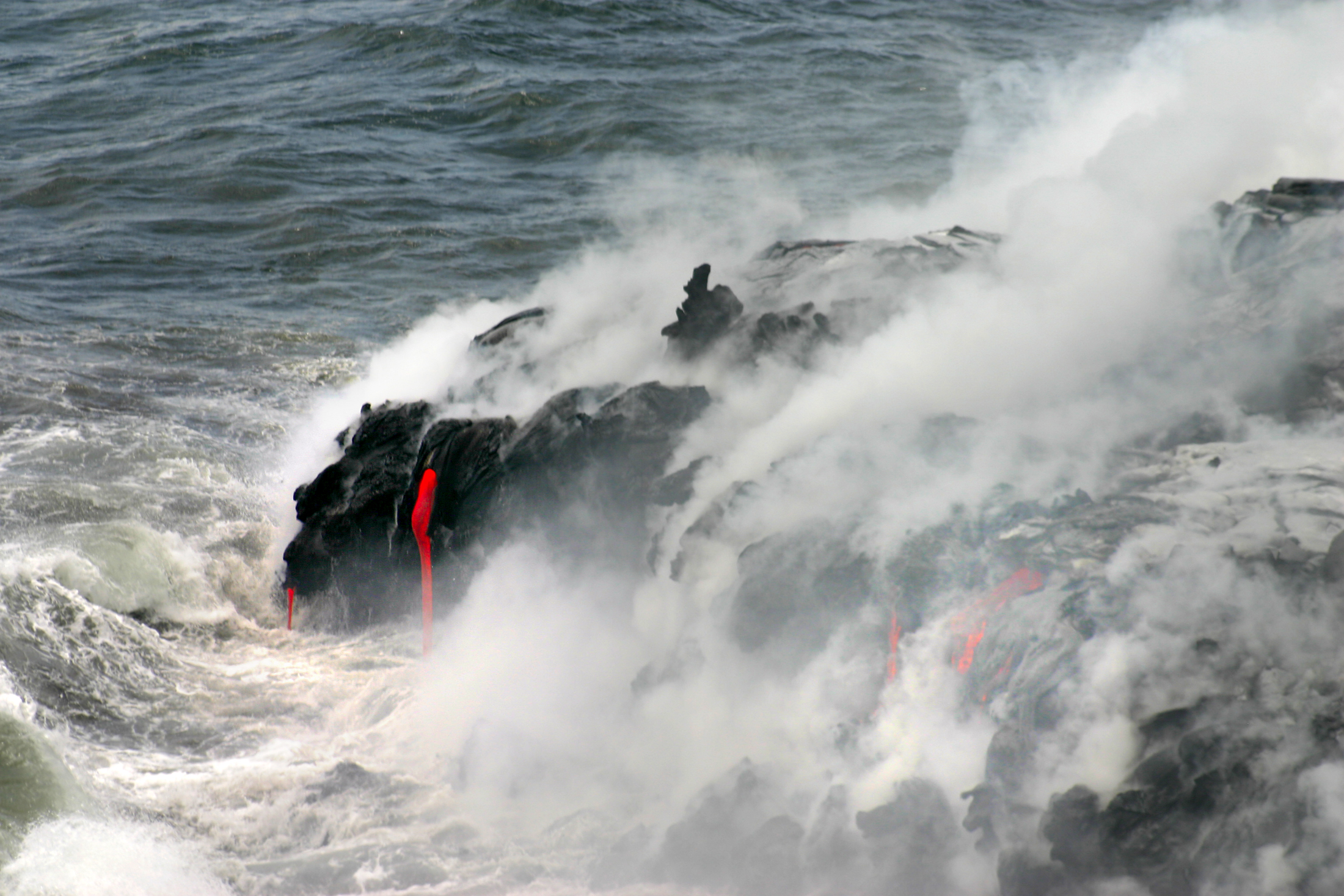 Pāhoehoe Lava is entering Pacific at The Big Island of Hawai,Hawaii Volcanoes National Park.